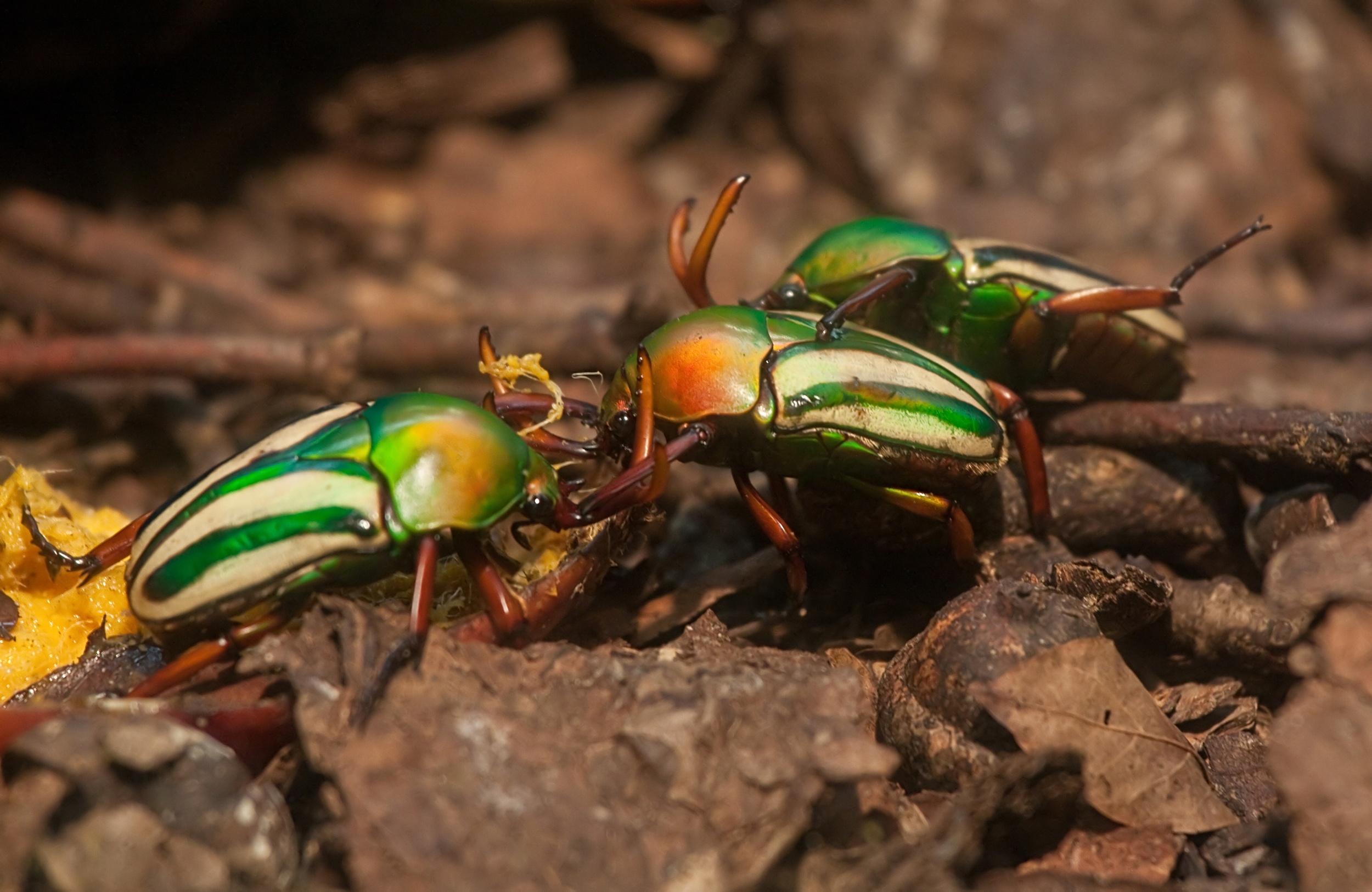 Eudicella gralli males locking horns at the Cincinnati Zoo. Photo by Greg Hume